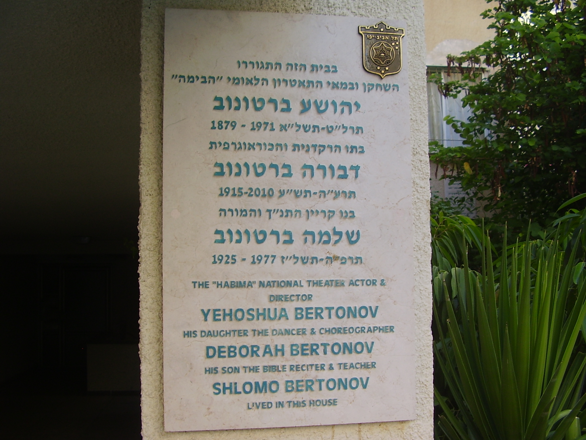 Memorial plaque on Bertonov's house in Tel Aviv לוחית זיכרון על ביתם של יהושע, דבורה ושלמה ברטונוב ברחוב דב הוז 30 בתל אביב